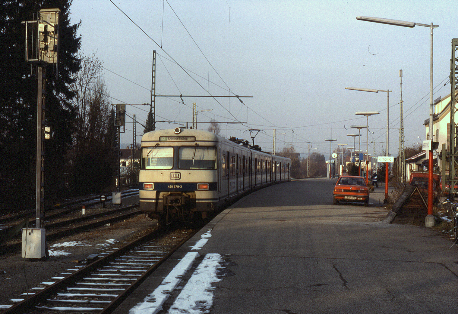 München S-Bahn along with several other city S-Bahn services had an extensibe fleet of these 3-car class 420 EMUs. Seen at Herrsching, a dead end branches to the south opf the city with the 14:42 departure. Another 420 set would be attached on to the train towards München, on this occasion at Unterpfaffenhofen-Germing